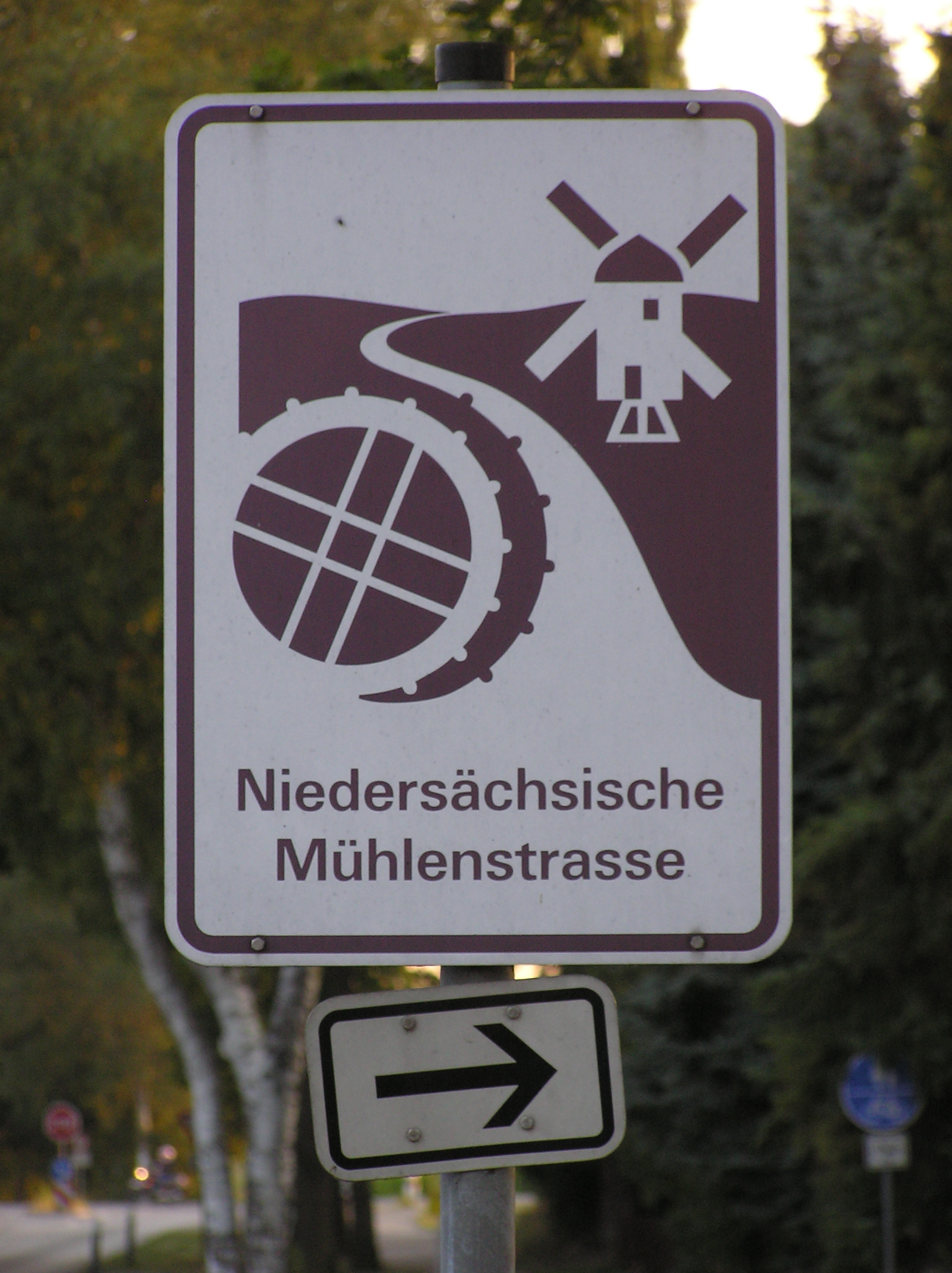 Millsign,NS,Germany